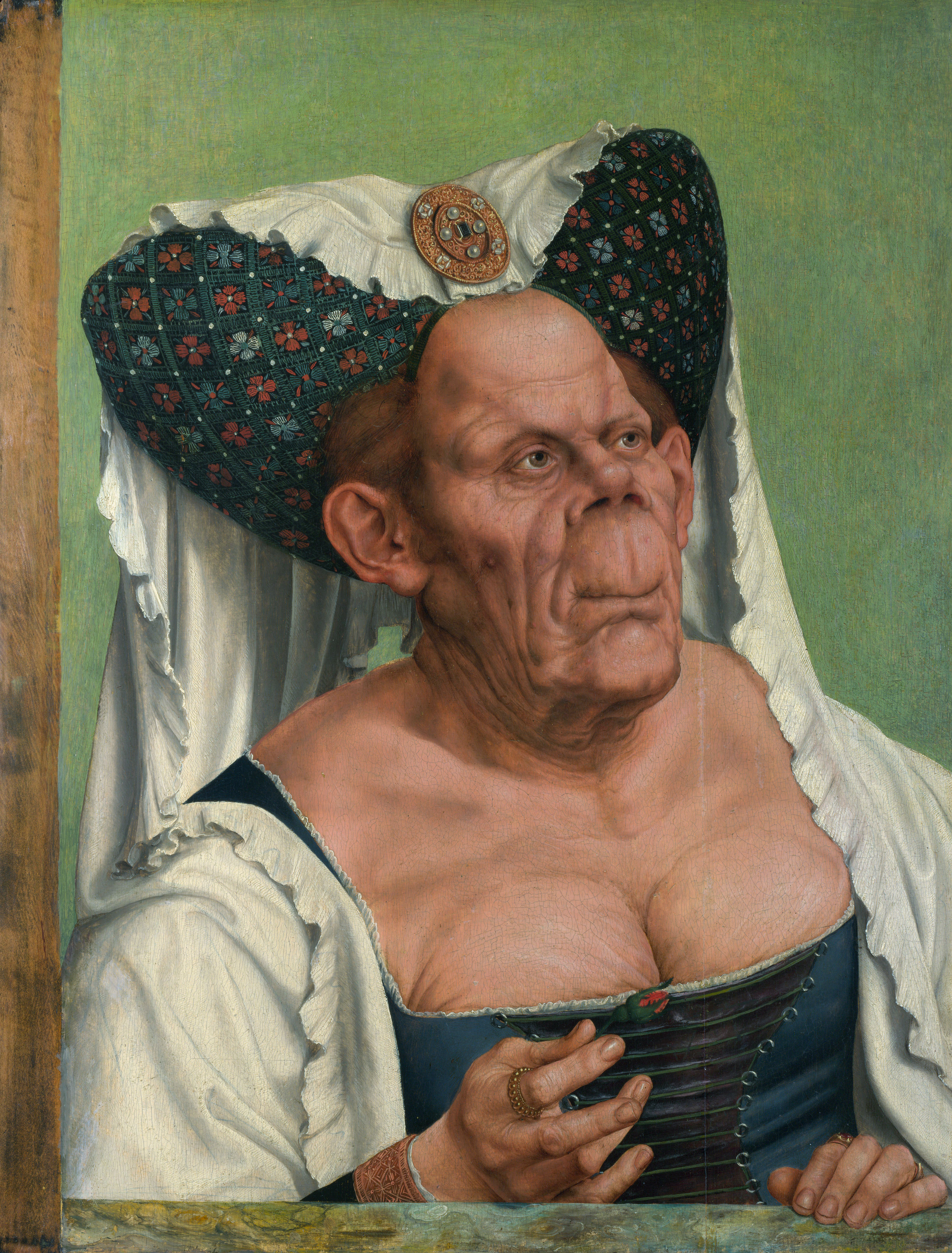 It was probably intended to satirise old women who try inappropriately to recreate their youth, rather than as a portrait of a specific person. [1] Pendant of Portrait of an old man, by Quinten Matsys